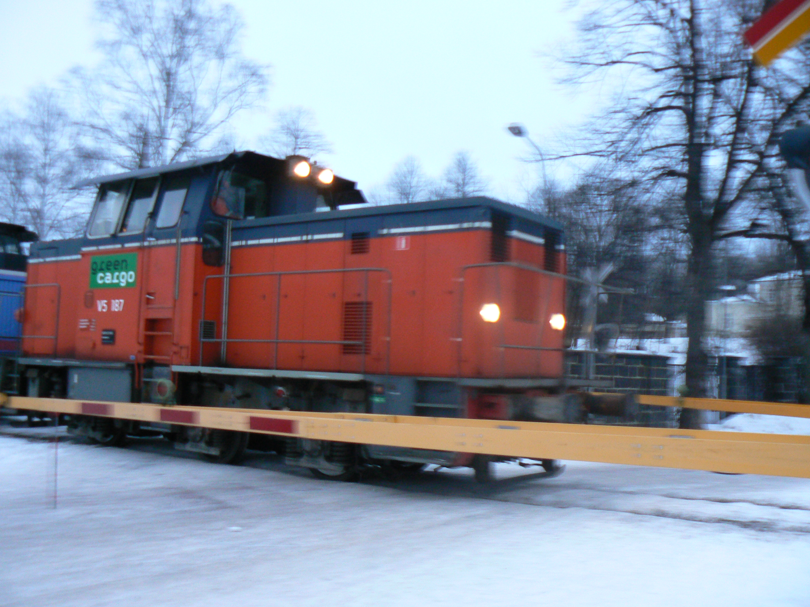 One of two V5 engines pulling a cargo train on the railway between Grycksbo and Falun in Sweden. Picture from central Falun. Photo by Skvattram February 2007.